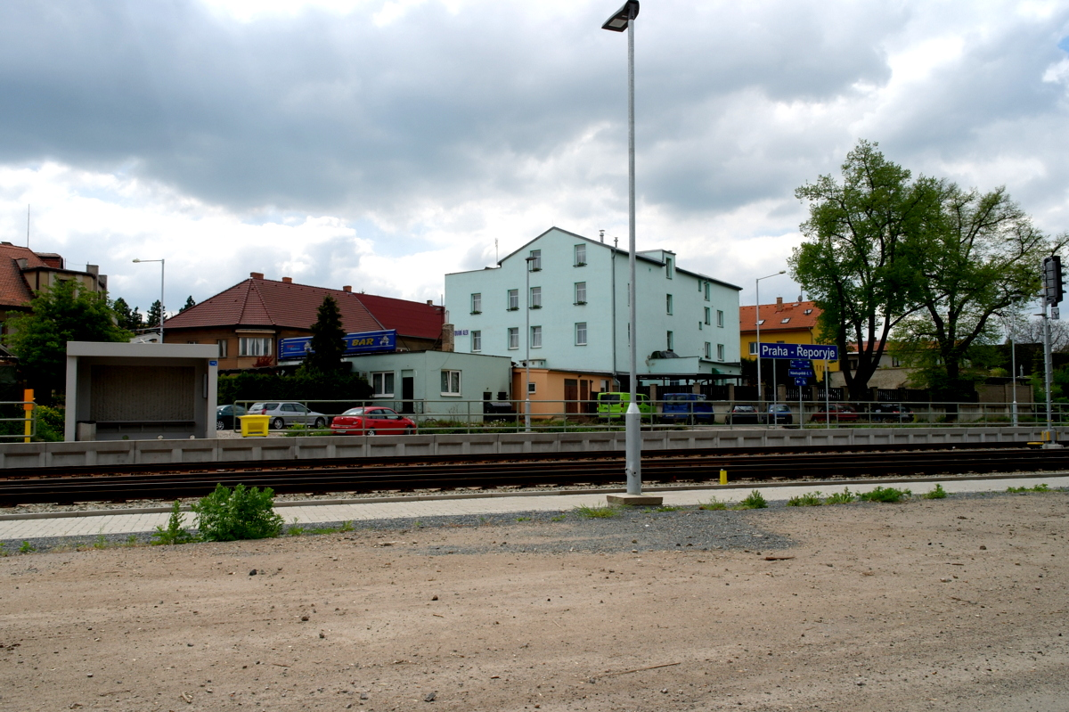 Railway station Praha-Řeporyje, Řeporyje, Prague 13, the capital city Prague. Prague Smíchov - Rudná u Prahy – Beroun railway line no. 173.